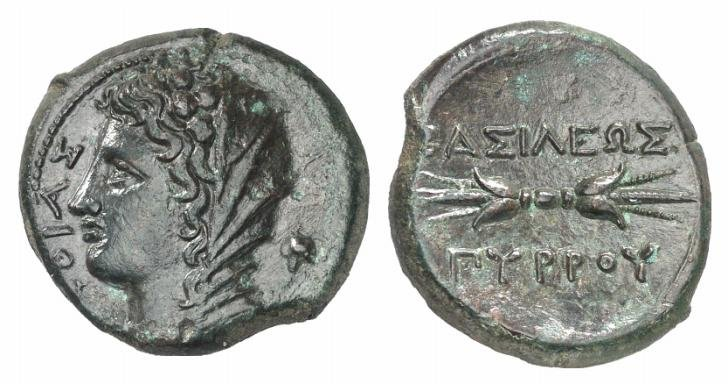 Pyrrhos, King of Epirus, 278 276, minted at Syracuse, Bronze. ΦΘIAΣ Veiled head of Phtia with oak wreath / BAΣIΛEΩΣ ΠΥΡΡOΥ